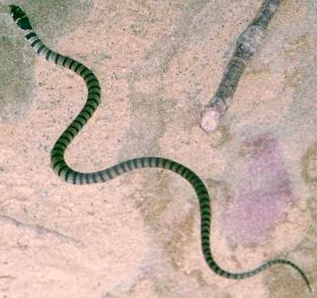 I chased this snake on the sand of Resolute Beach, at Pittwater, NSW. It paused while resting on Narrabeen Sandstone. This photo shows the banded juvenile form